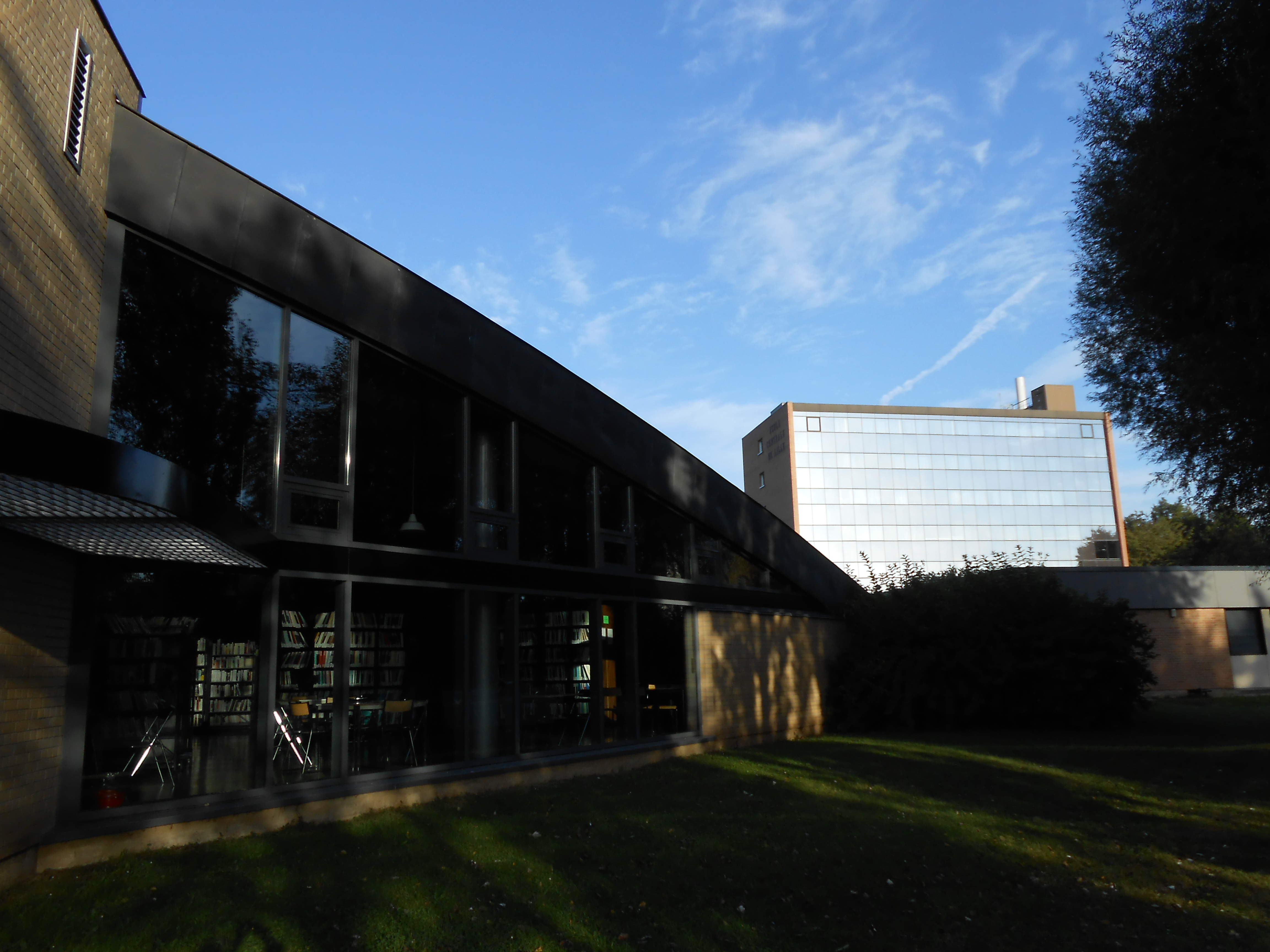 École centrale de Lille, graduate engineering school located in Lille, France